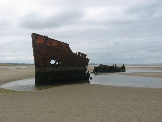 Wreck on Baltray strand. Remains of the 344-ton Irish Trader, of Hartlepool, grounded in 1974 en route from Sharpness to Drogheda with a cargo of fertiliser.